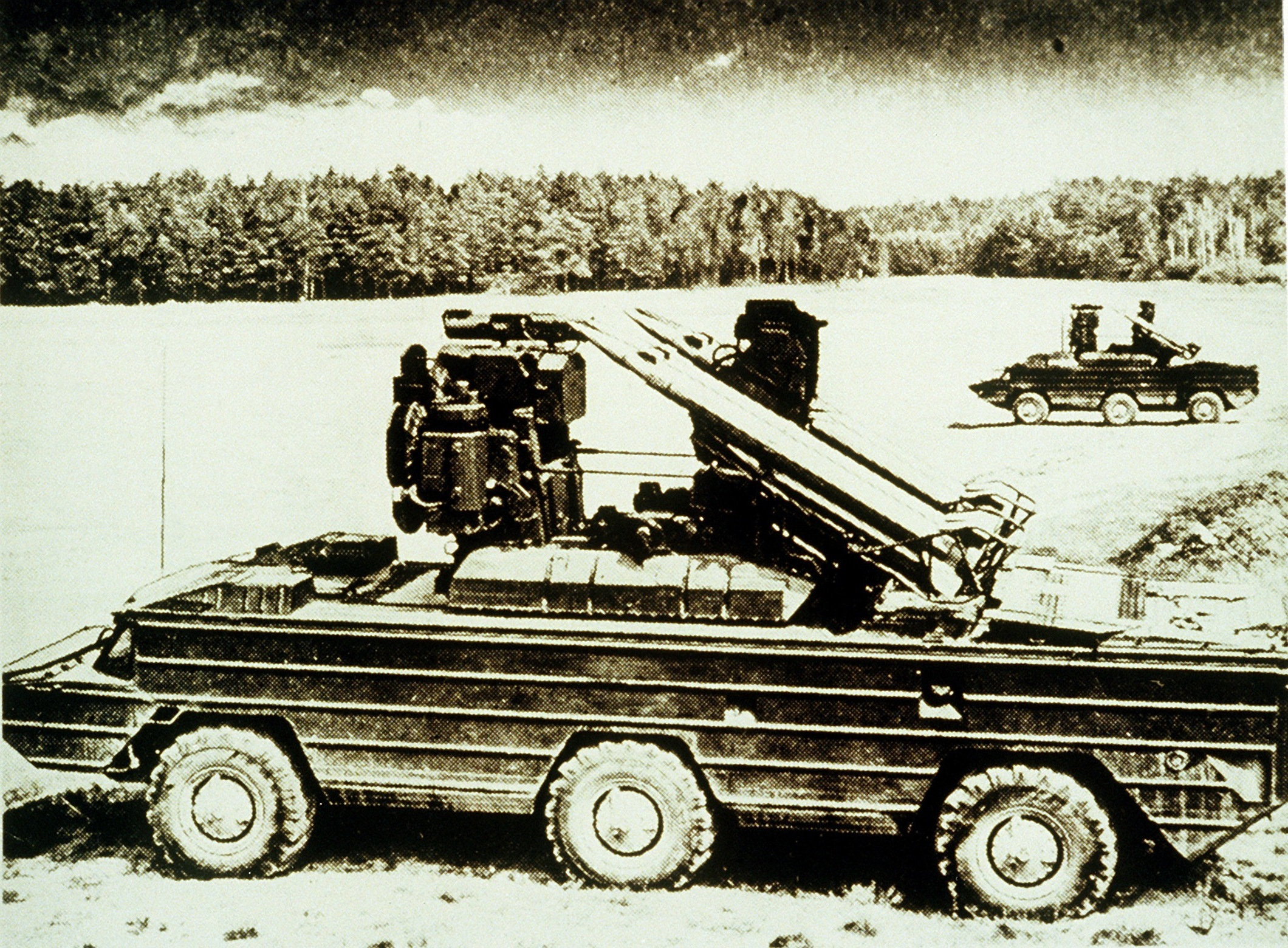 A side view of two Soviet SA-8 Gecko short-range all-weather weapon systems.